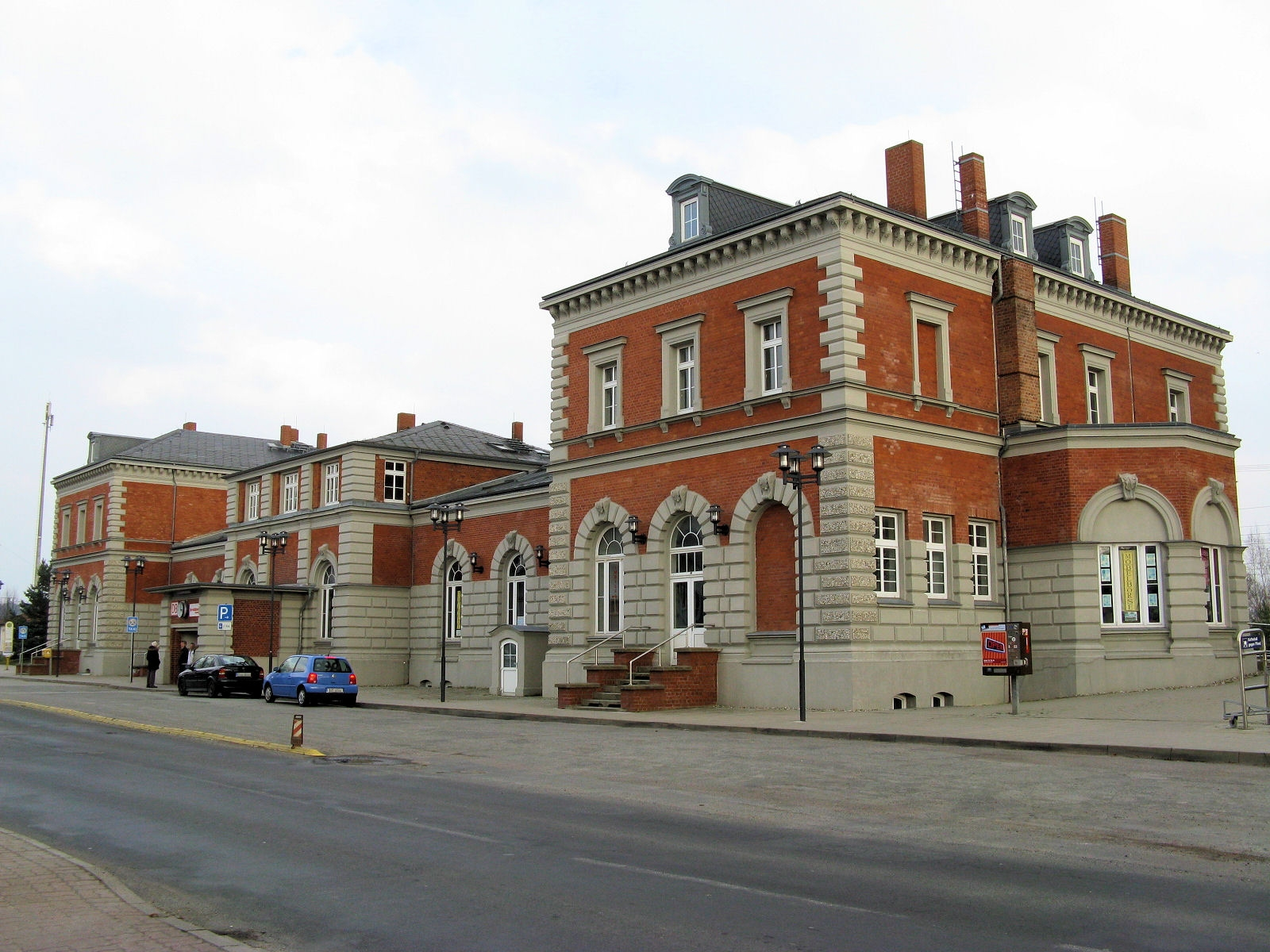 Train station in Bützow, district Güstrow, Mecklenburg-Vorpommern, Germany